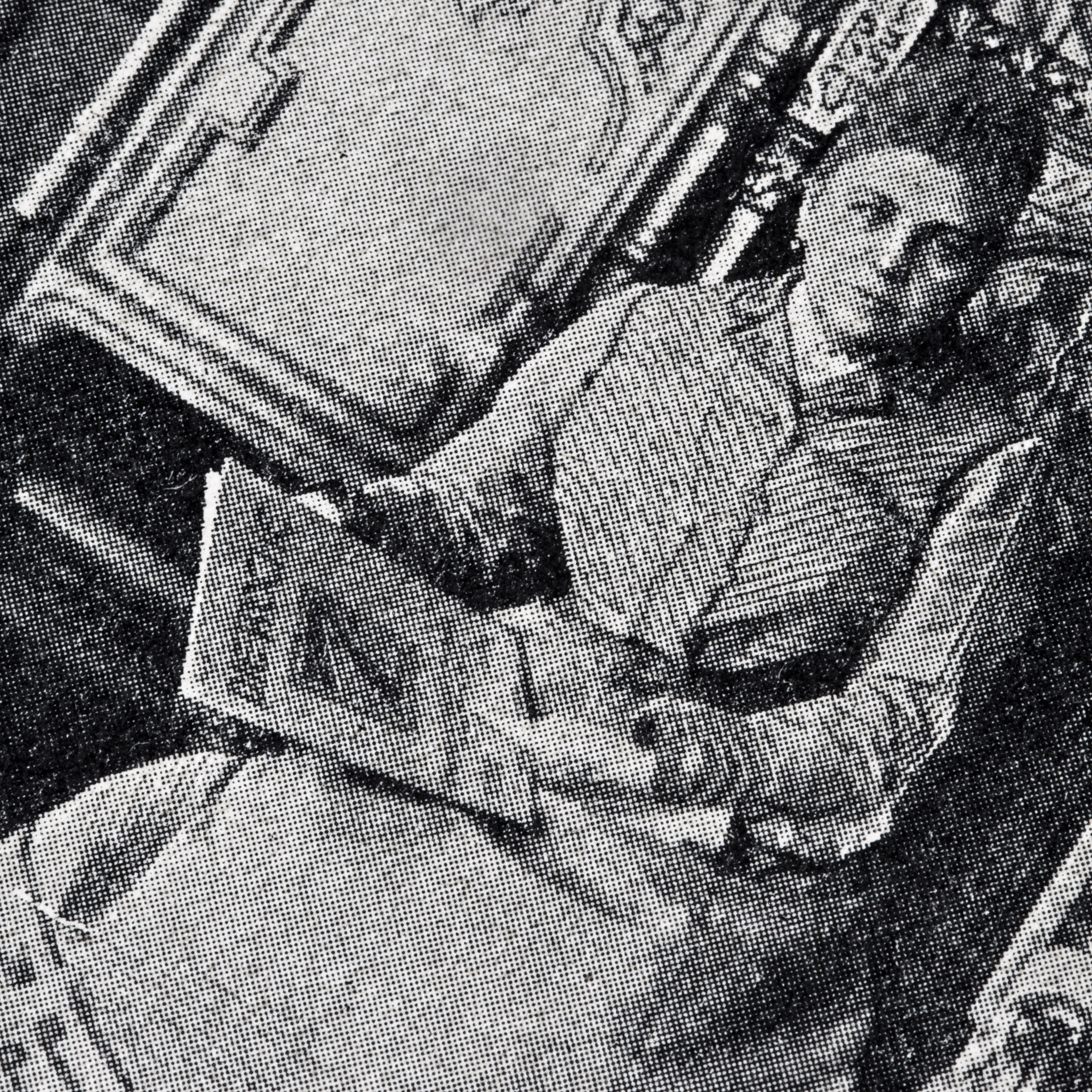 Detail of a photograph in the german boulevard magazine Die Woche showing Duchess Joahnan Schaffgotsch with the magazine Die Woche in her hand.